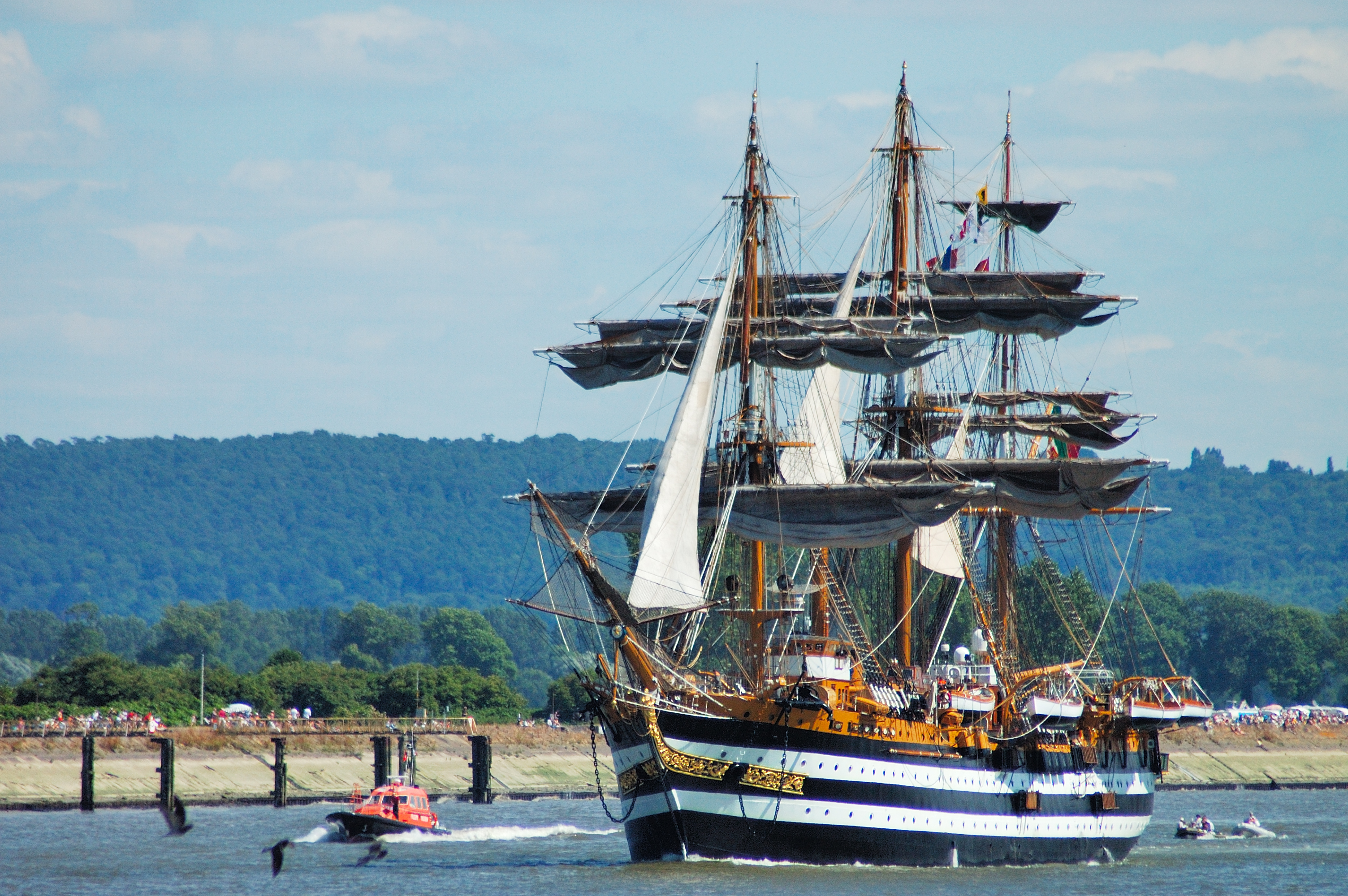 Amerigo Vespucci at Armada Rouen 2008